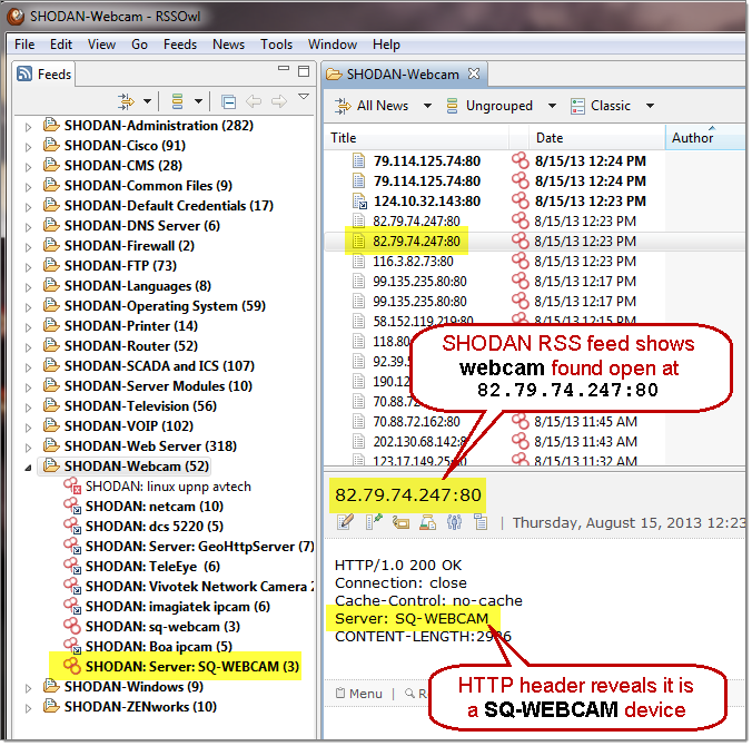 SHODAN Hacking Alerts - RSS Feeds - by Bishop Fox New, live vulnerability RSS feeds based on results from the popular SHODAN hacking search engine. Bishop Fox incorporates SHODAN data into its defense alerts by utilizing the feature to turn SHODAN search results into RSS feeds by appending &feed=1 to common SHODAN query URLs. As an example